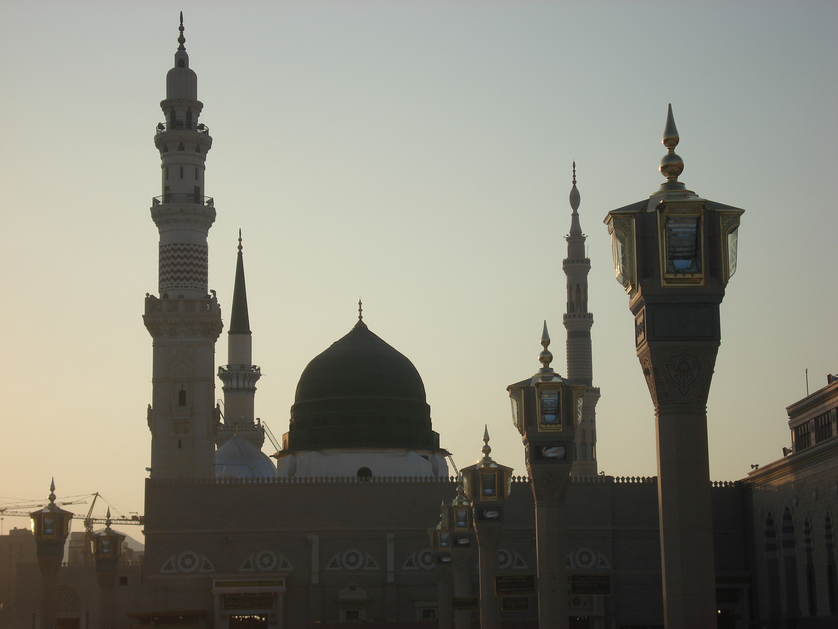 Tomb of Muhammad in Madinah, Saudi Arabia